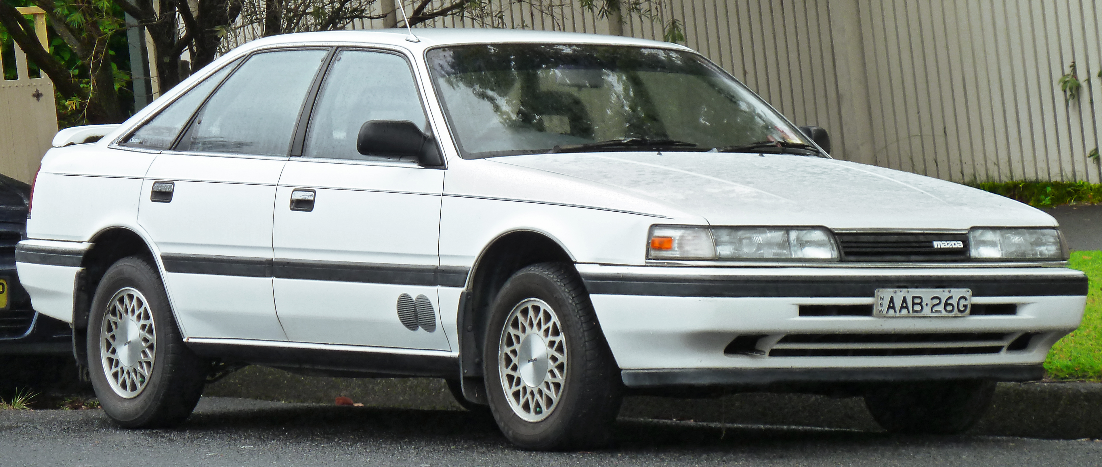 1990 Mazda 626 (GD Series 2) Eclipse 2.2i hatchback. Photographed in Roseville, New South Wales, Australia.